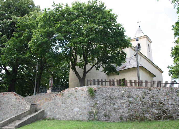 Roman catholic church if Hosszúhetény; Hungary